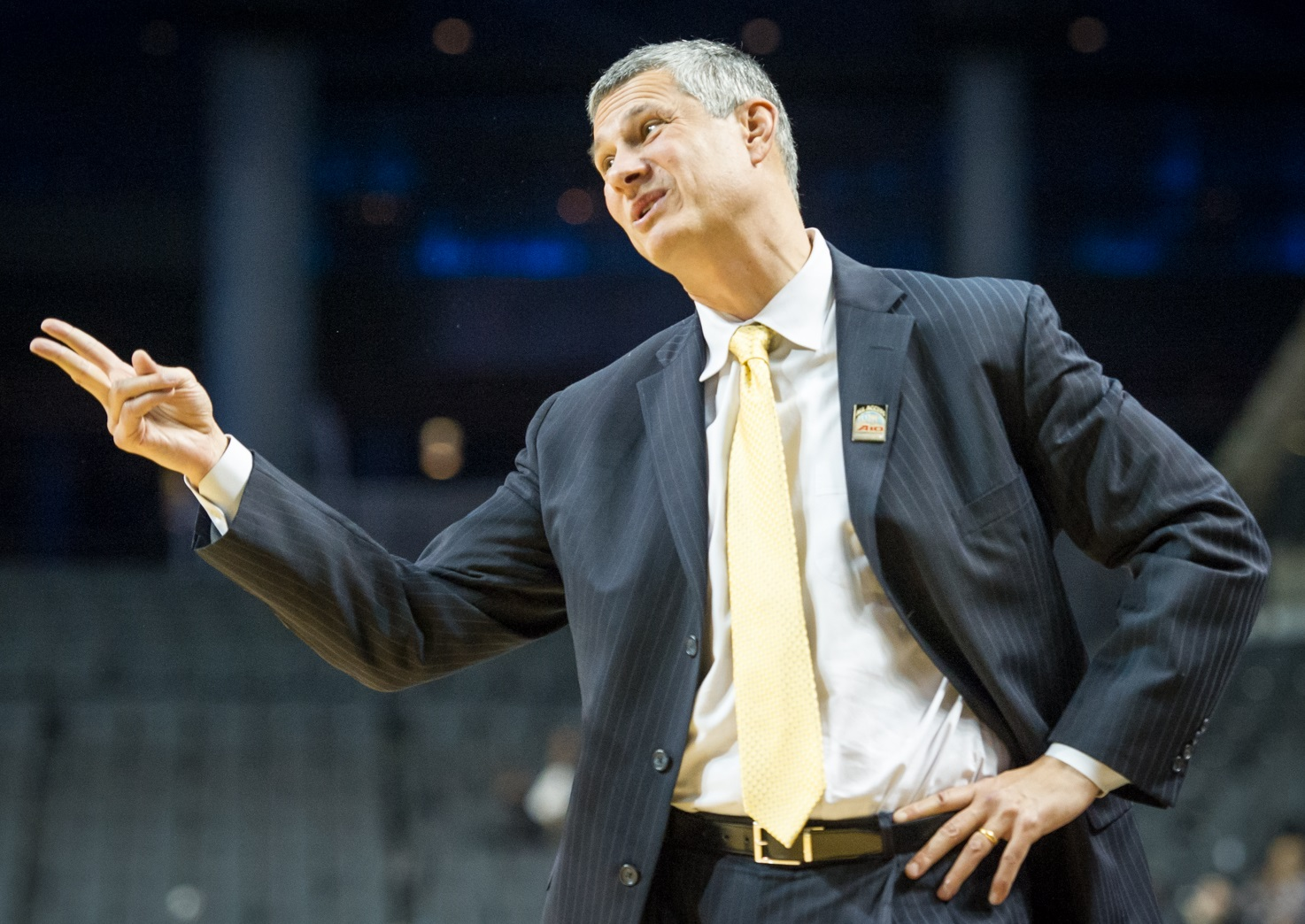 La Salle University men's basketball head coach John Giannini during the first round game against Duquesne on March 9, 2016 at Barclays Center in Brooklyn, N.Y.